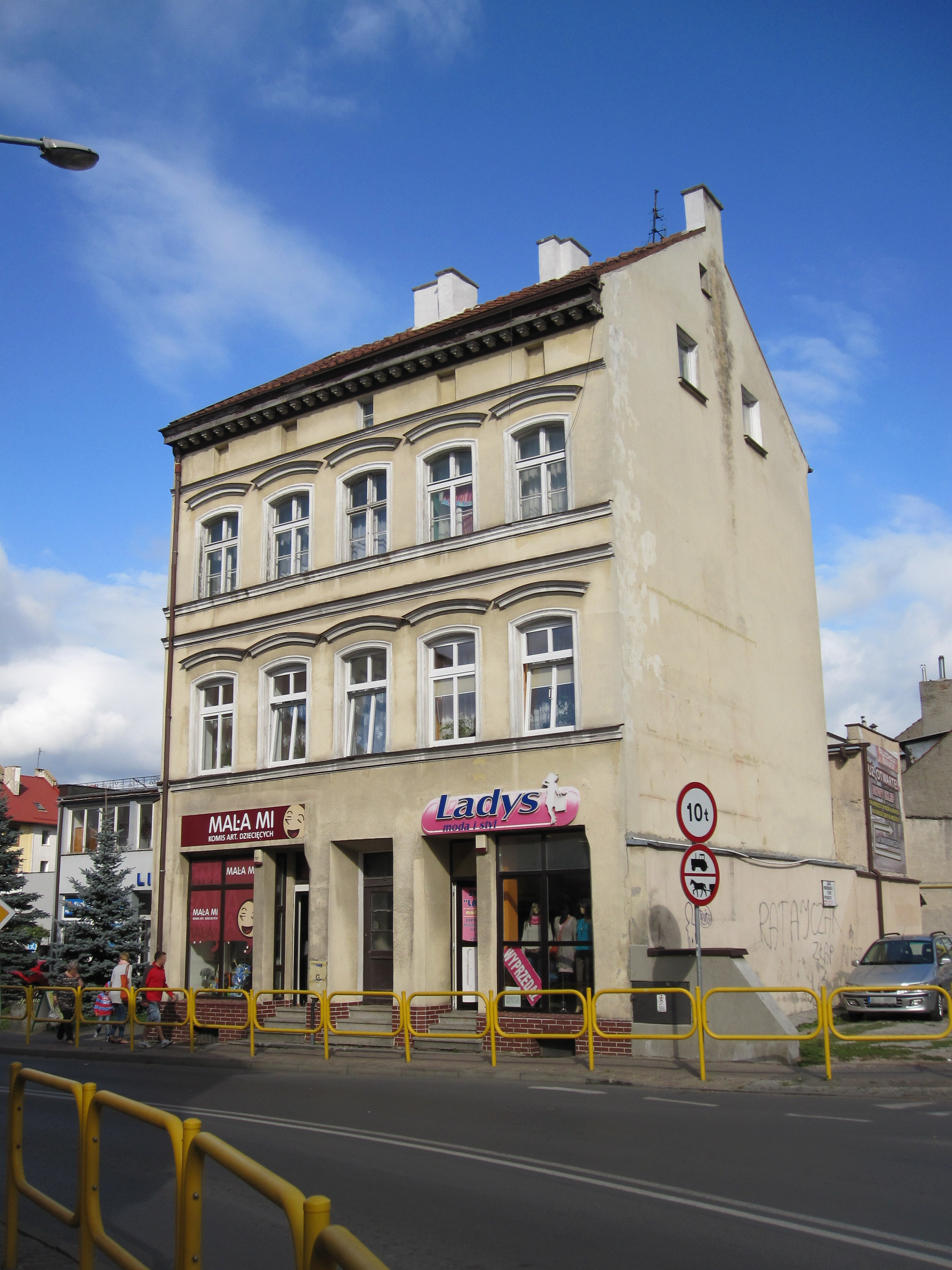 Ostróda - tenement on the 2 Mickiewicza street